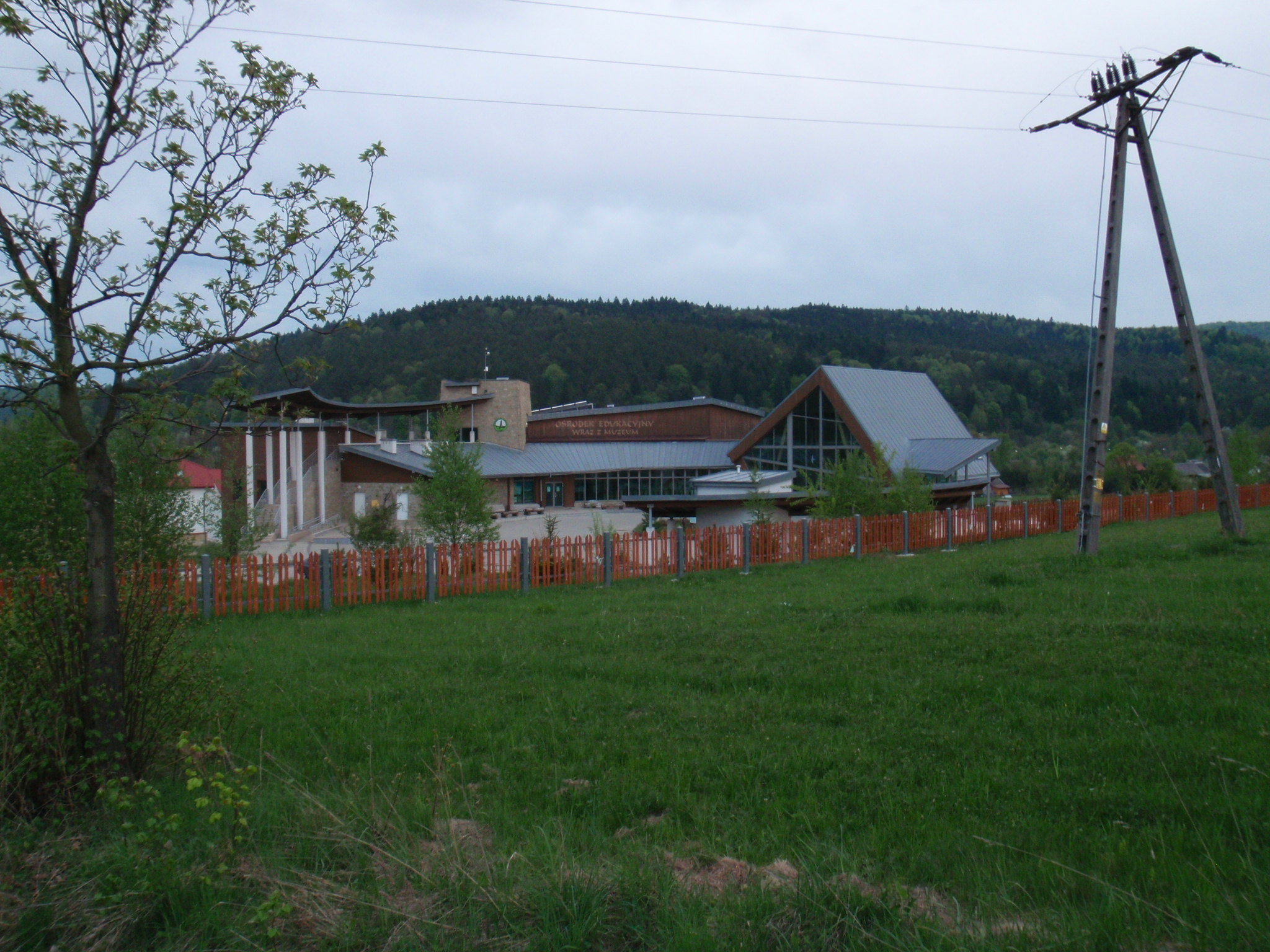 Education center and museum in Krempna